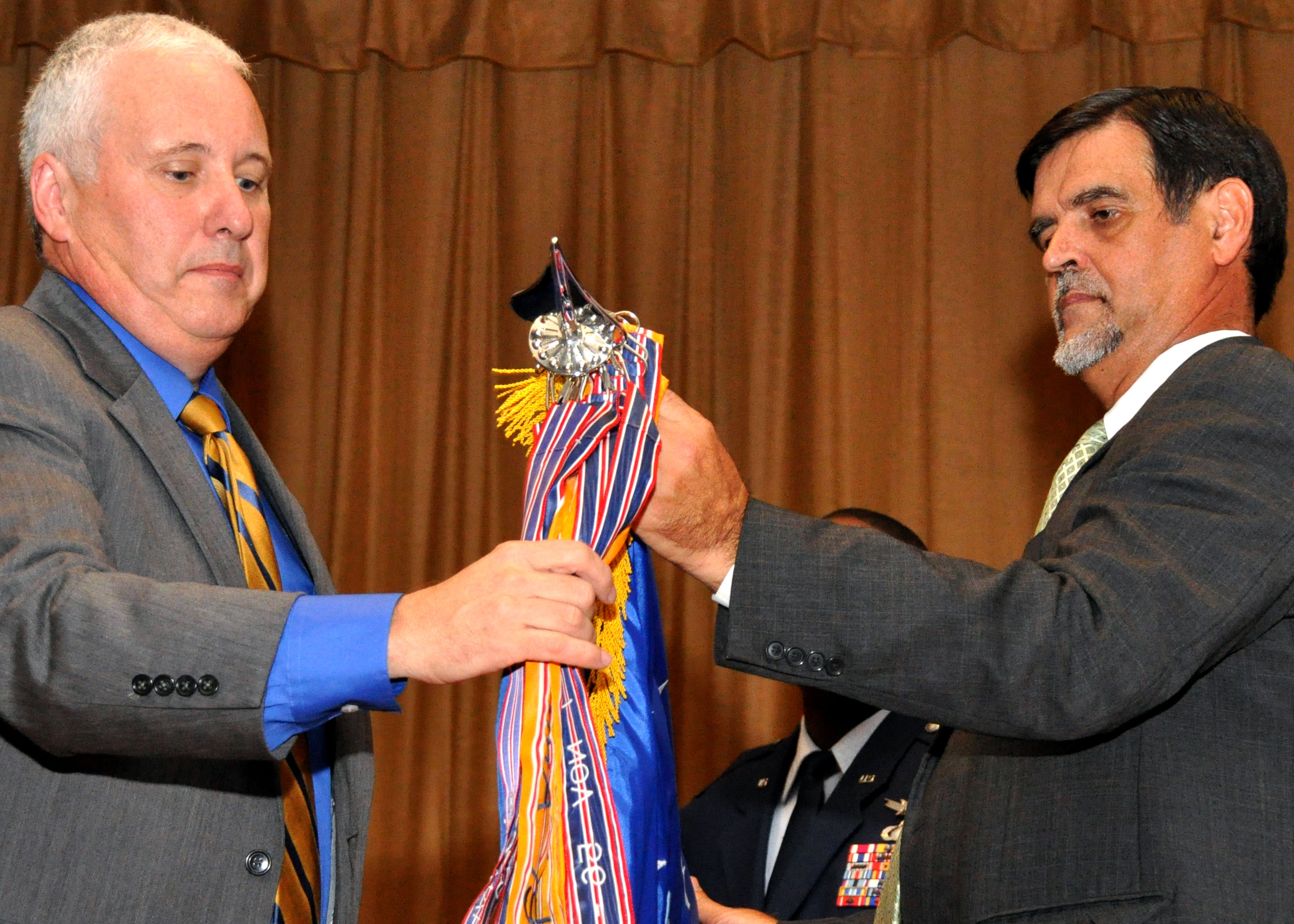 Dr. Bruce Simpson, Air Armament Center Deputy for Acquisition, helps Randy Brown, 308 Armament Systems Directorate director, roll up the guidon for the former 308th wing July 30 at Eglin Air Force Base, Fla. The wing became a directorate to comply with Air Force 2008-2010 Strategic Plan and the CSAF's directive to implement guidelines for new personnel strength standards for units across the Air Force. (U.S. Air Force photo/Tech. Sgt. Cheryl Foster.)